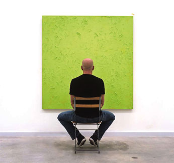 Alan Ebnother sitting in front of one of his paintings in his studio.